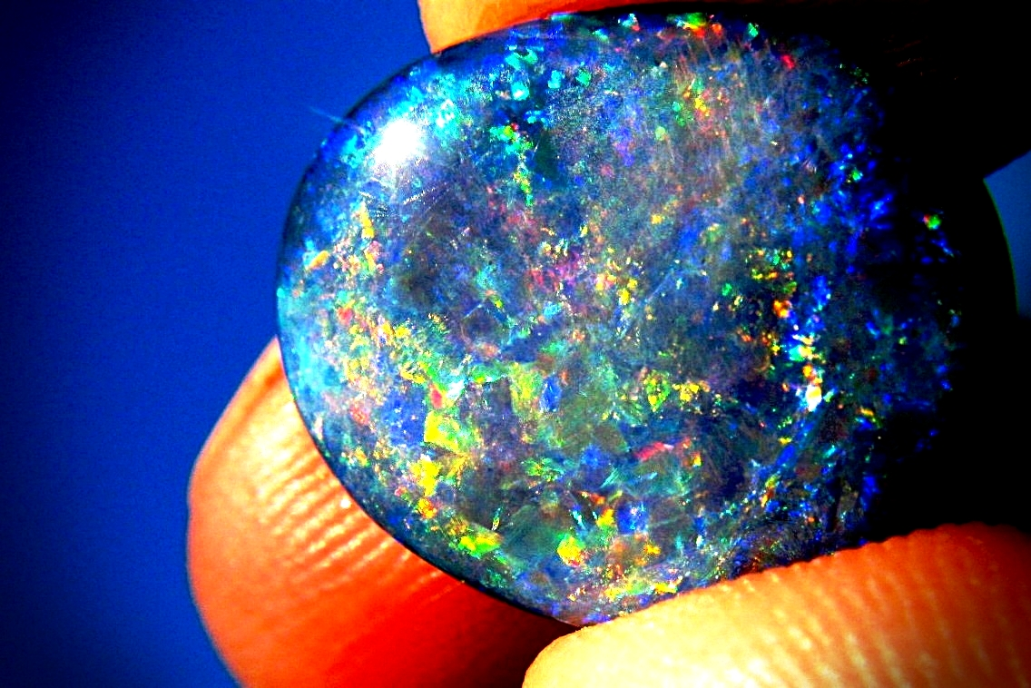 Cutted and polished black opal from Lightning Ridge, Australia, 8 carats.